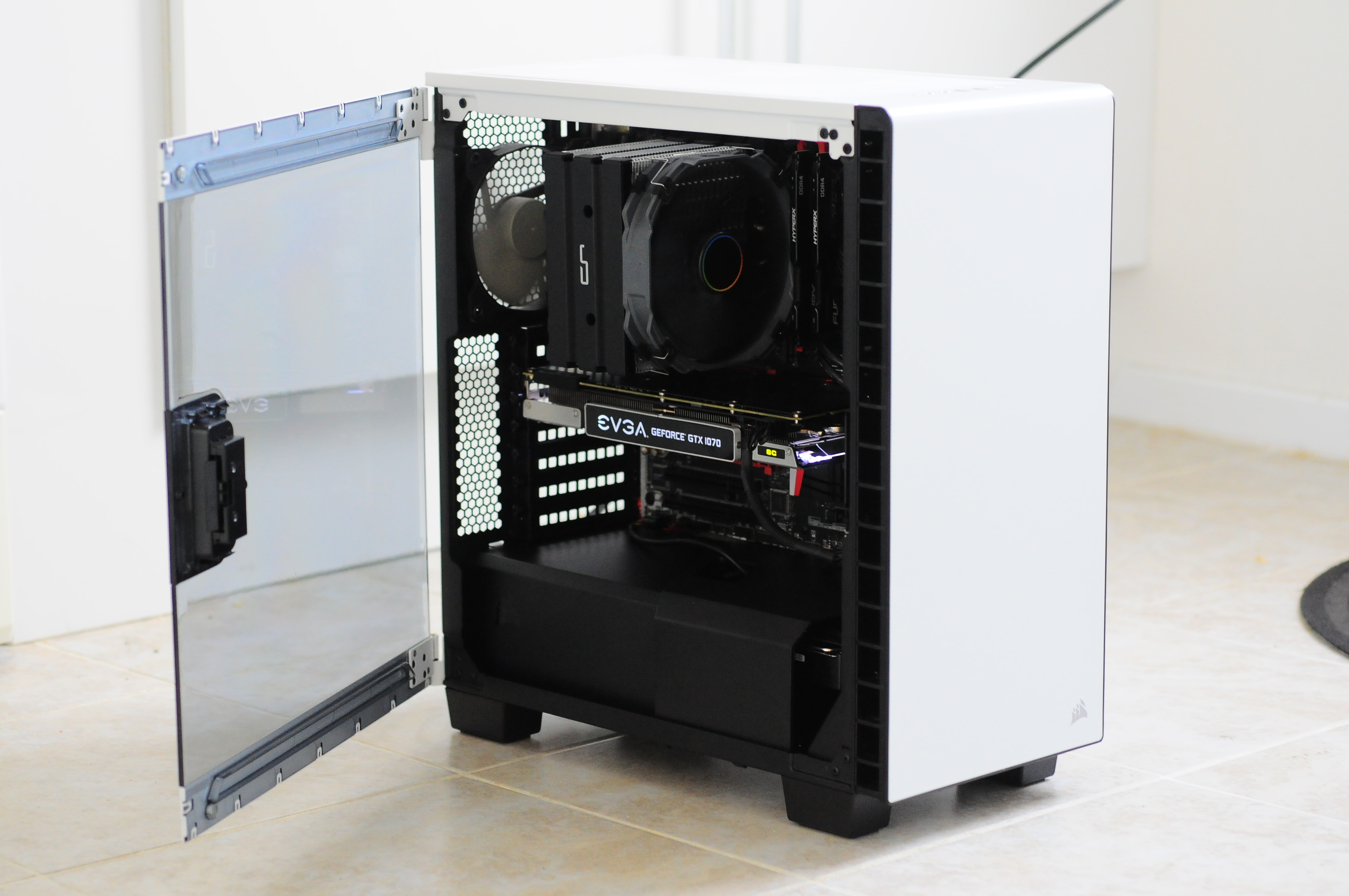 This is a modern gaming pc from 2016. The picture may have to be changed in a couple of years to reflect on current standards.